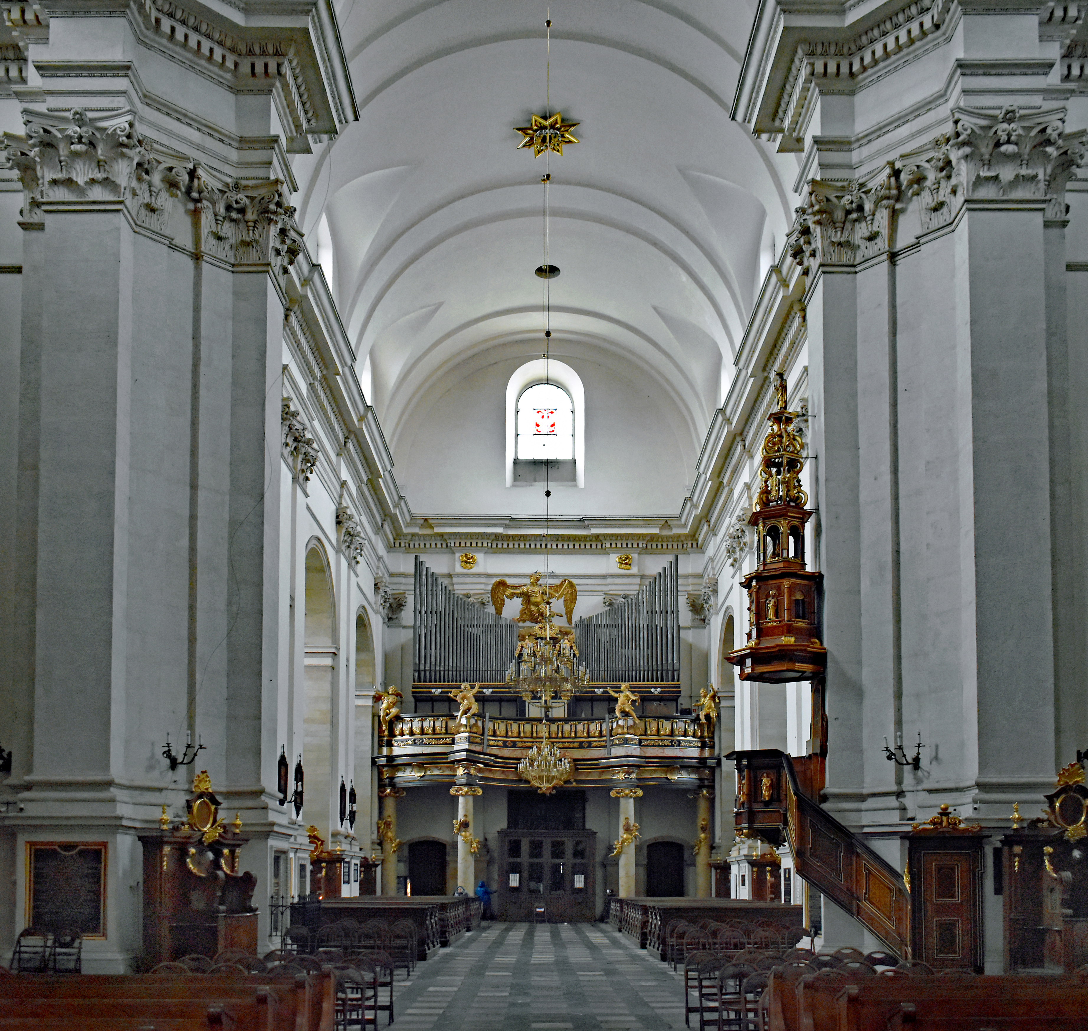 Church of Saints Apostles Peter and Paul (interior1), 52a Grodzka street, Krakow, Poland